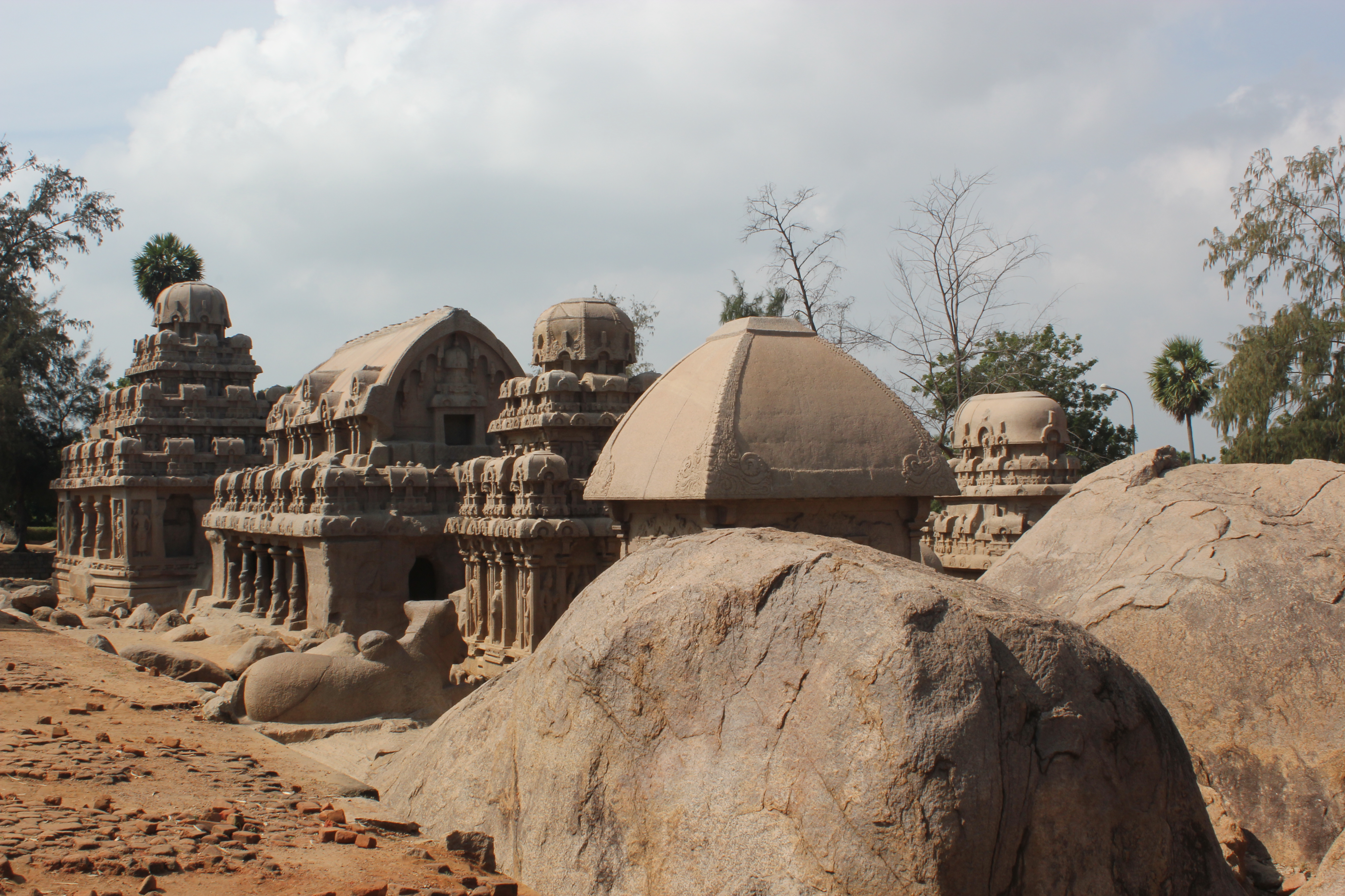 Five Rathas in Mahabalipuram, this is one of the two sites in Mahabalipuram which forms part of UN world heritage site.